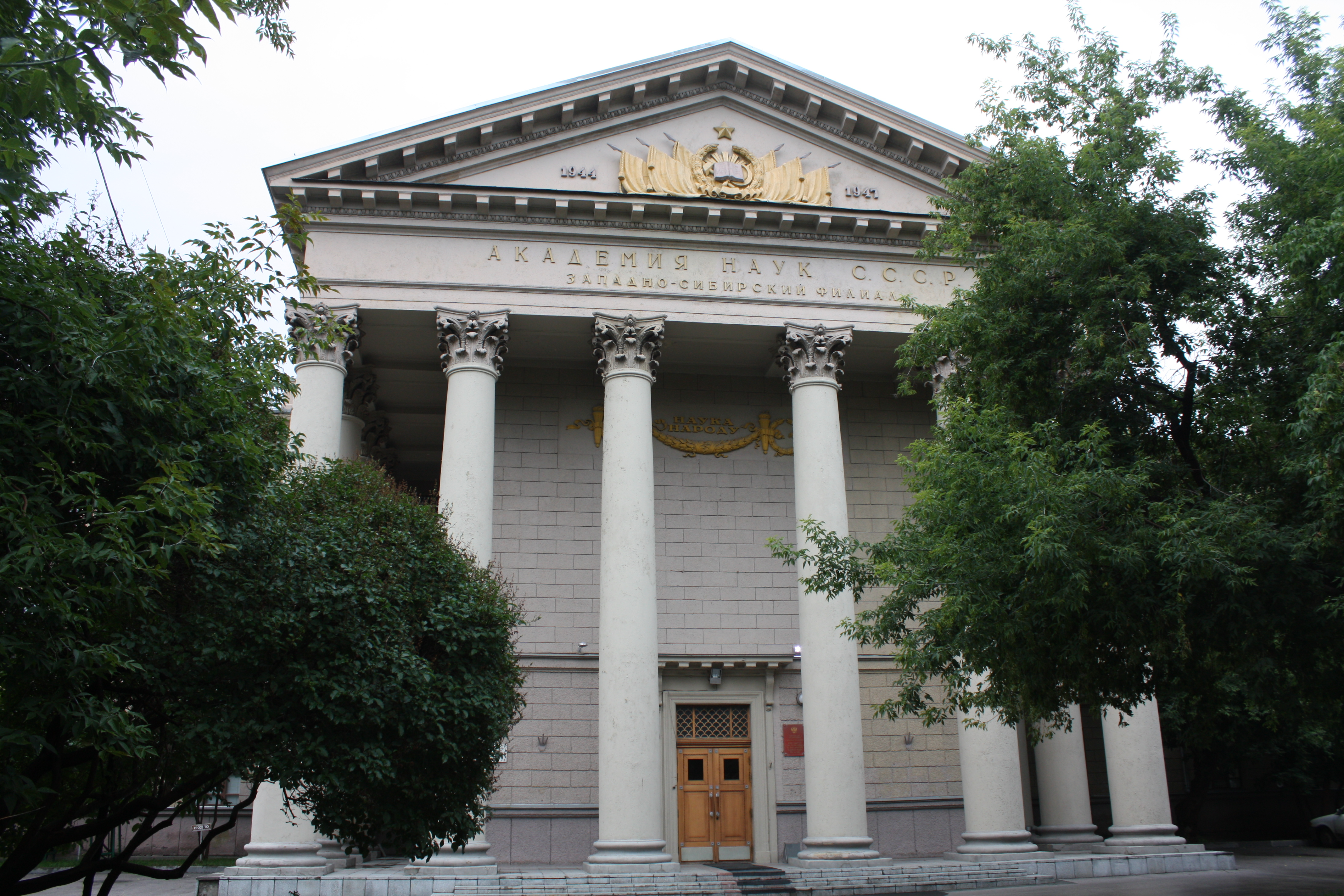 Institute of Systematics and Ecology of Animals, Central District, Novosibirsk.